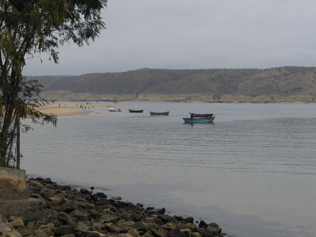 Restinga peninsula, Lobito, Angola